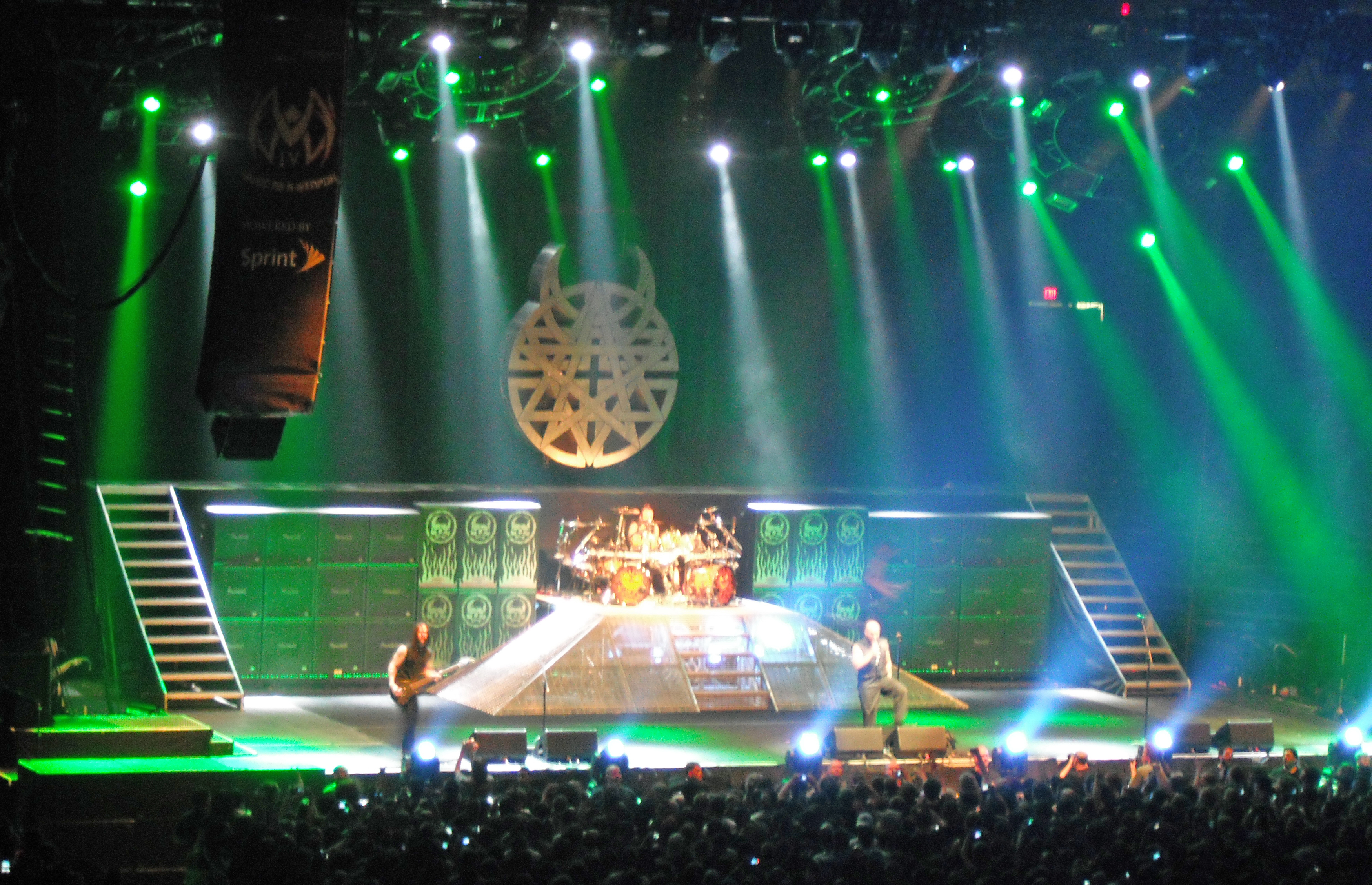 Disturbed performing live in 2009 at Music as a Weapon IV.